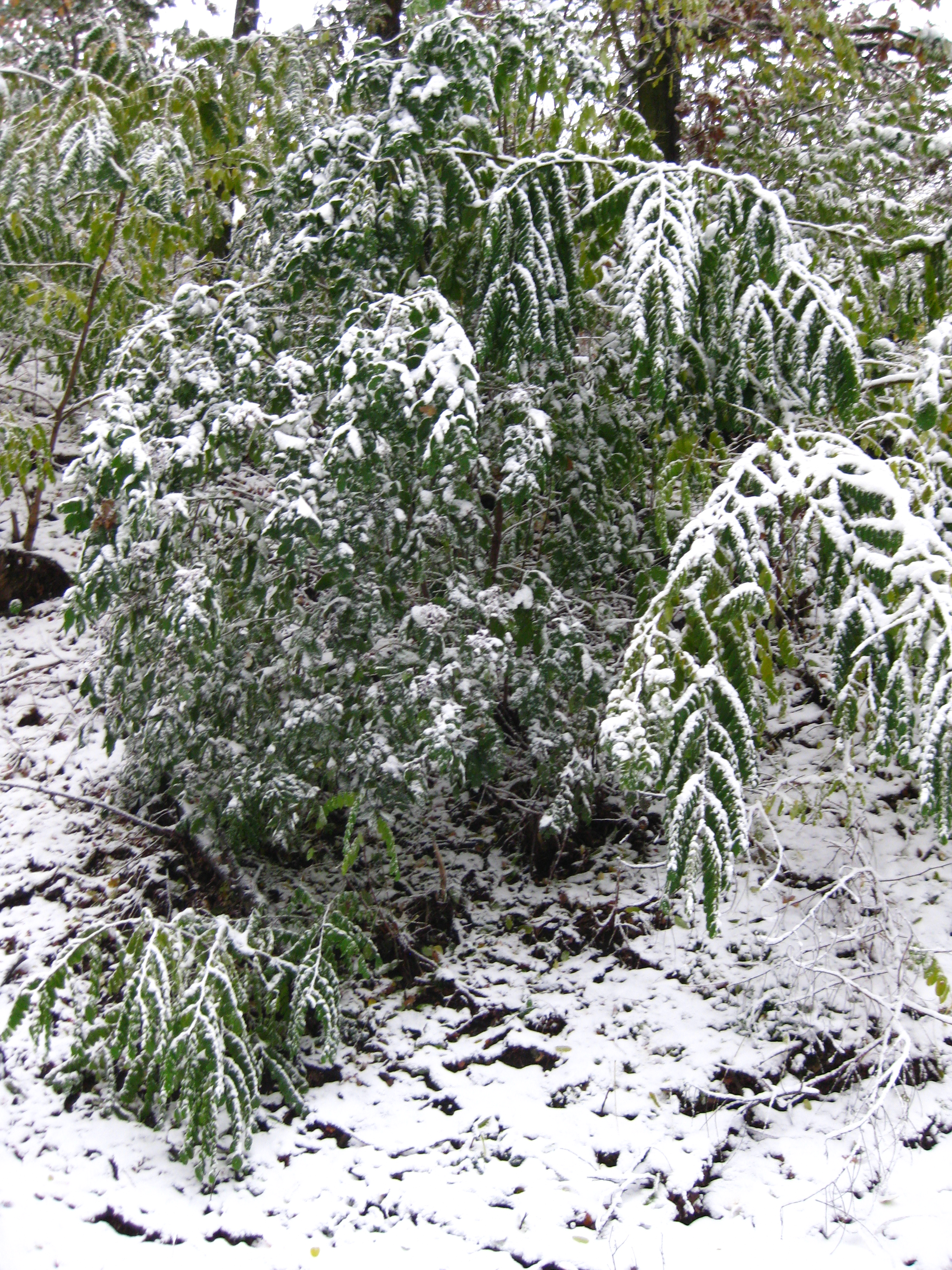 National monument Motolský ordovik in Prague, Czech Republic